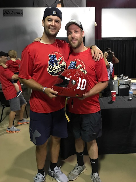 Thomas Praytor AJ McCarron with AIDB Helmet at Buddy Ball Fundraiser